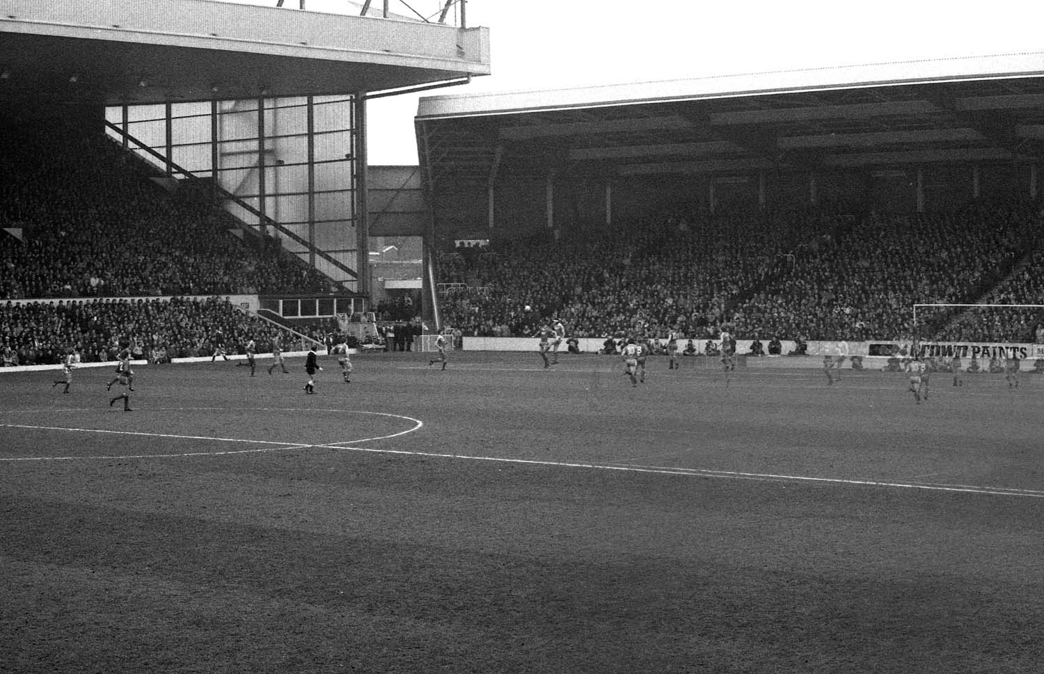 A corner of Anfield - Home of Liverpool FC.